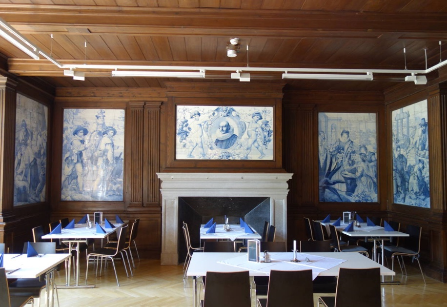 Töpperschloss Speisesaal